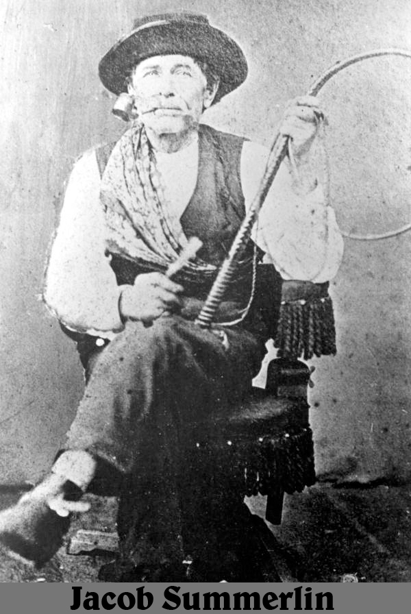 Overview of History in the Ninth Circuit Orlando, Florida. Jacob Summerlin